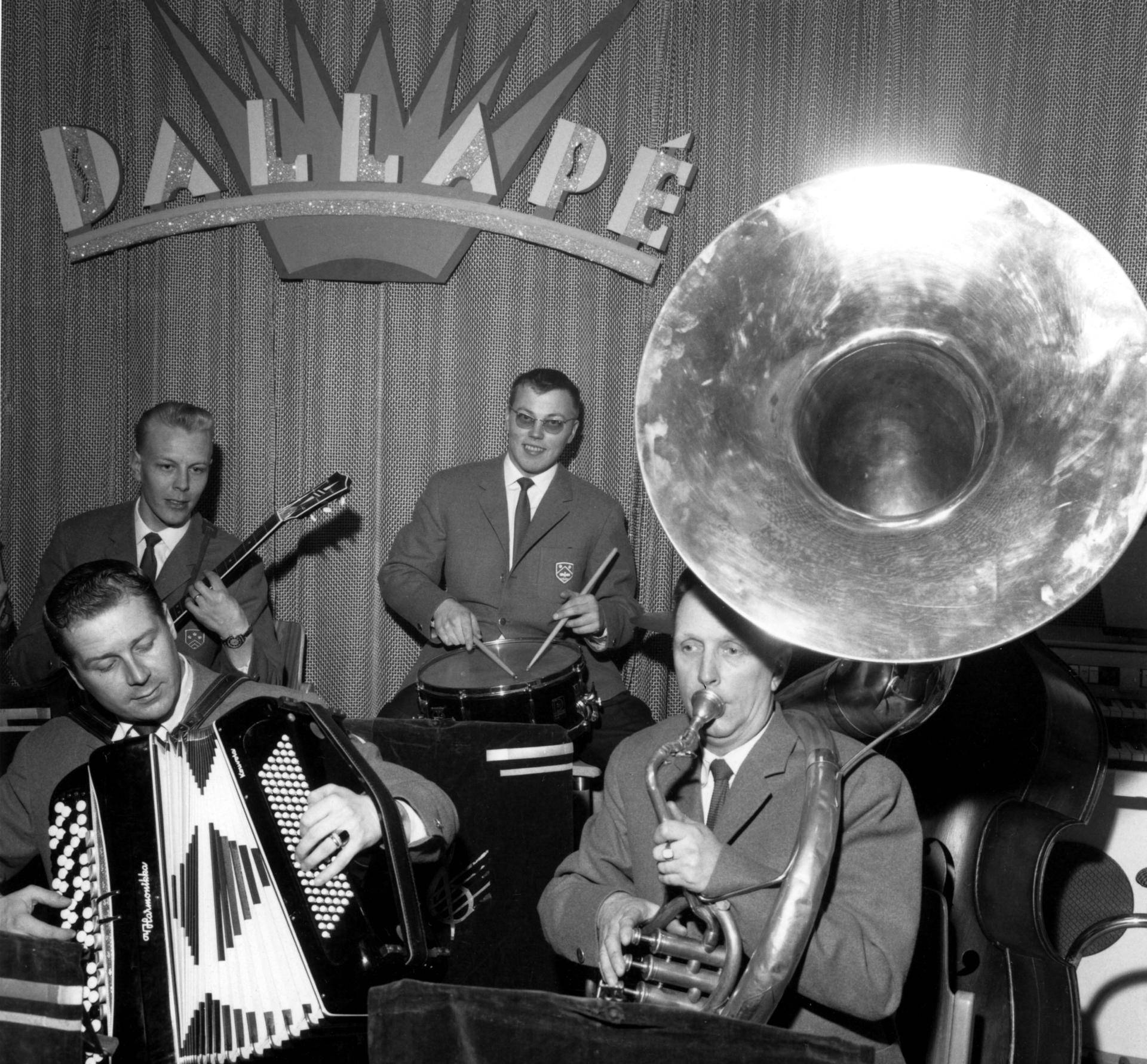 Photograph of the Finnish Dallapé Orchestra during rehearsals.